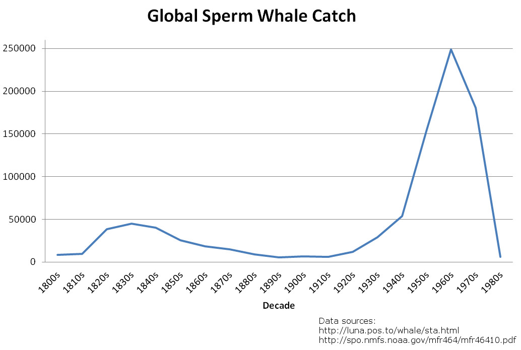 Global catches of sperm whales by decade, from the 1800s to the 1980s. Data sources: (1910-1989) (1800s-1900s)